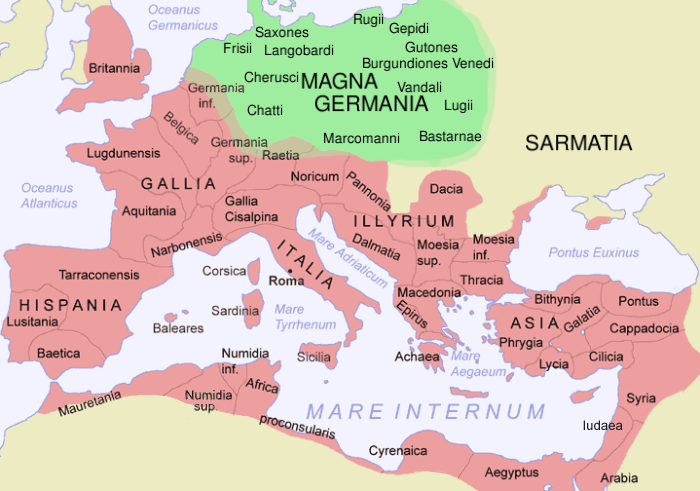 The Roman Empire in 116 AD and Germania Magna, with some Germanic tribes mentioned by Tacitus in CE 98 (quick sketch, could be updated with greater accuracy).